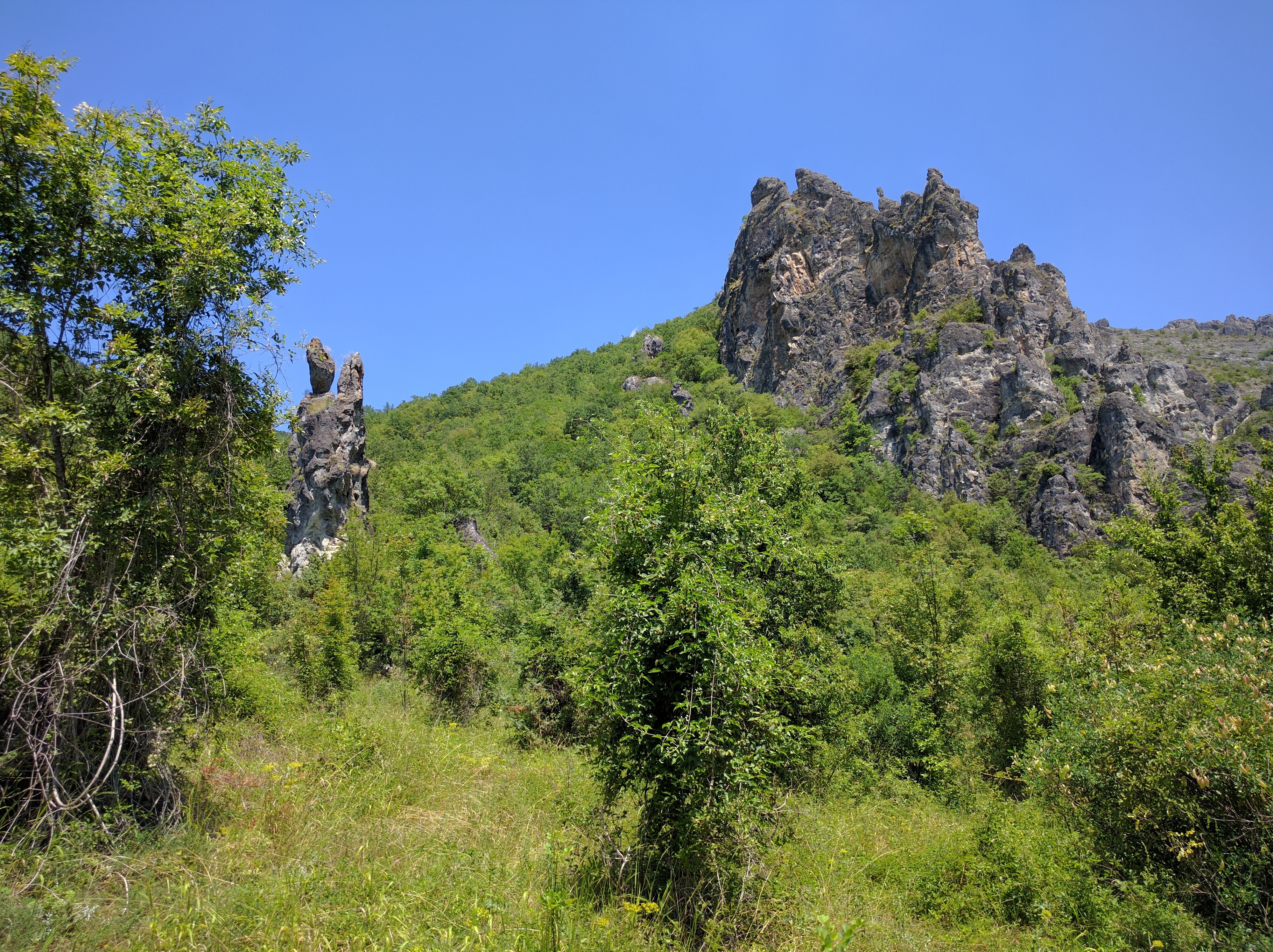 Rock formations in the Shegava Canyon near the village of Razhdavitsa, Bulgaria